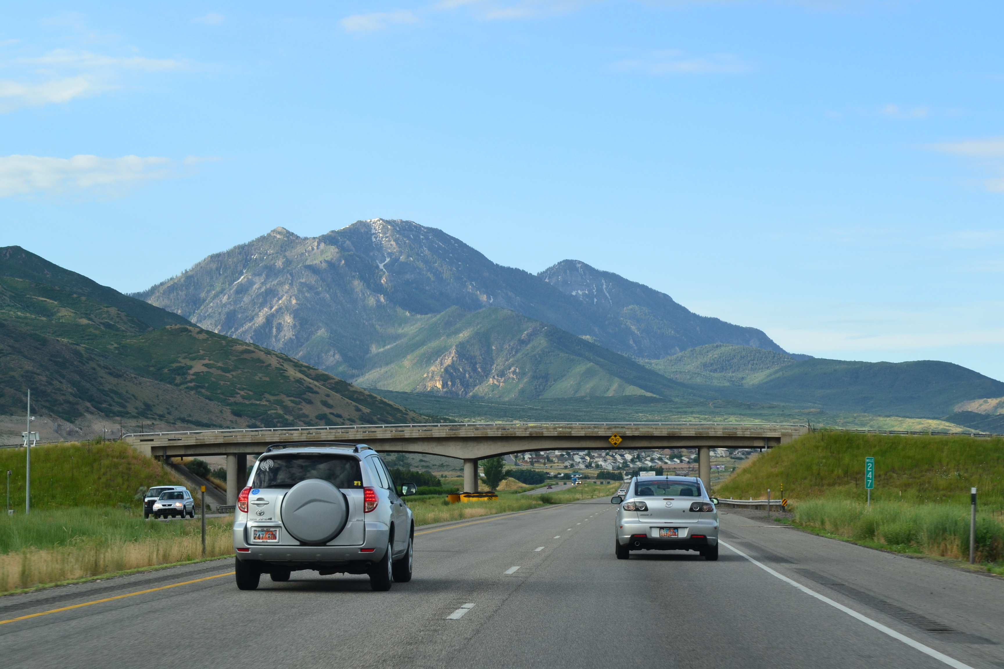 Southbound Interstate 15 near Santaquin, Utah.